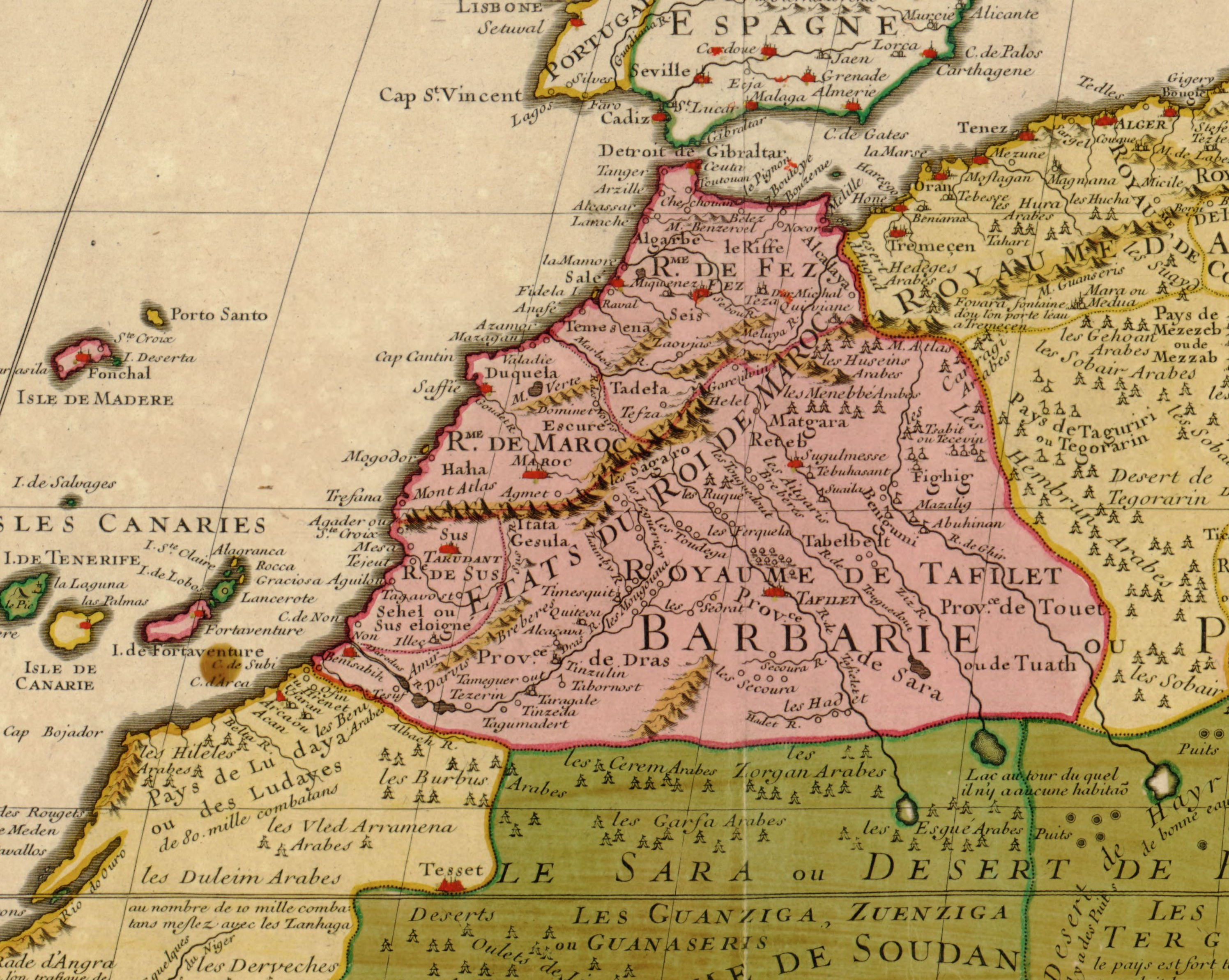 Map of Morocco in 1707 : Croped from File:Guillaume Delisle North West Africa 1707.jpg Source : Library of Congress Geography and Map Division; Call Number G8220 1707 .L5 This map is available from the United States Library of Congress's Geography & Map Division under the digital ID g8220.ct001447.This tag does not indicate the copyright status of the attached work. A normal copyright tag is still required. See Commons:Licensing for more information.